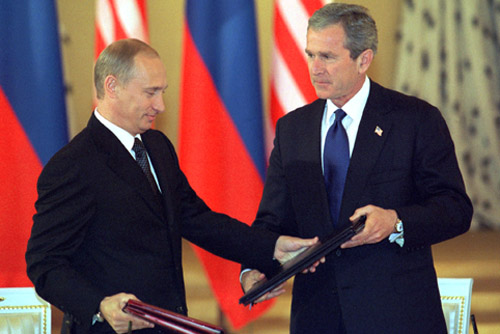 THE GRAND KREMLIN PALACE, MOSCOW. President Putin with US President George Bush during the signing of joint documents.